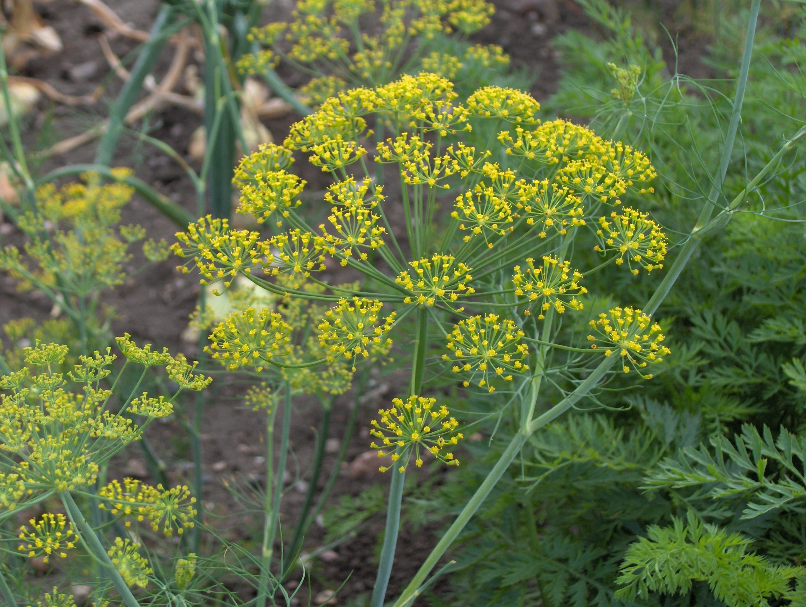 Anethum graveolens (dill) flower, on Ven, Sweden.